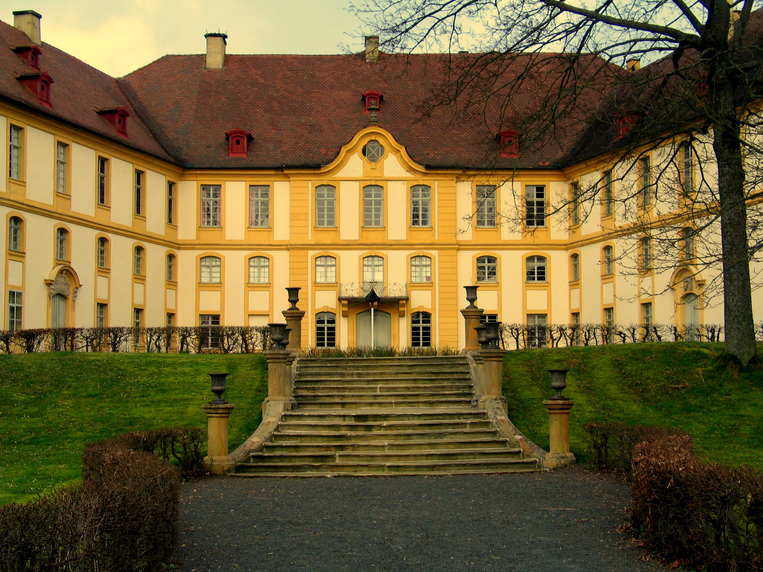 Rentweinsdorf Castle, Municipality of Rentweinsdorf, District of Haßberge